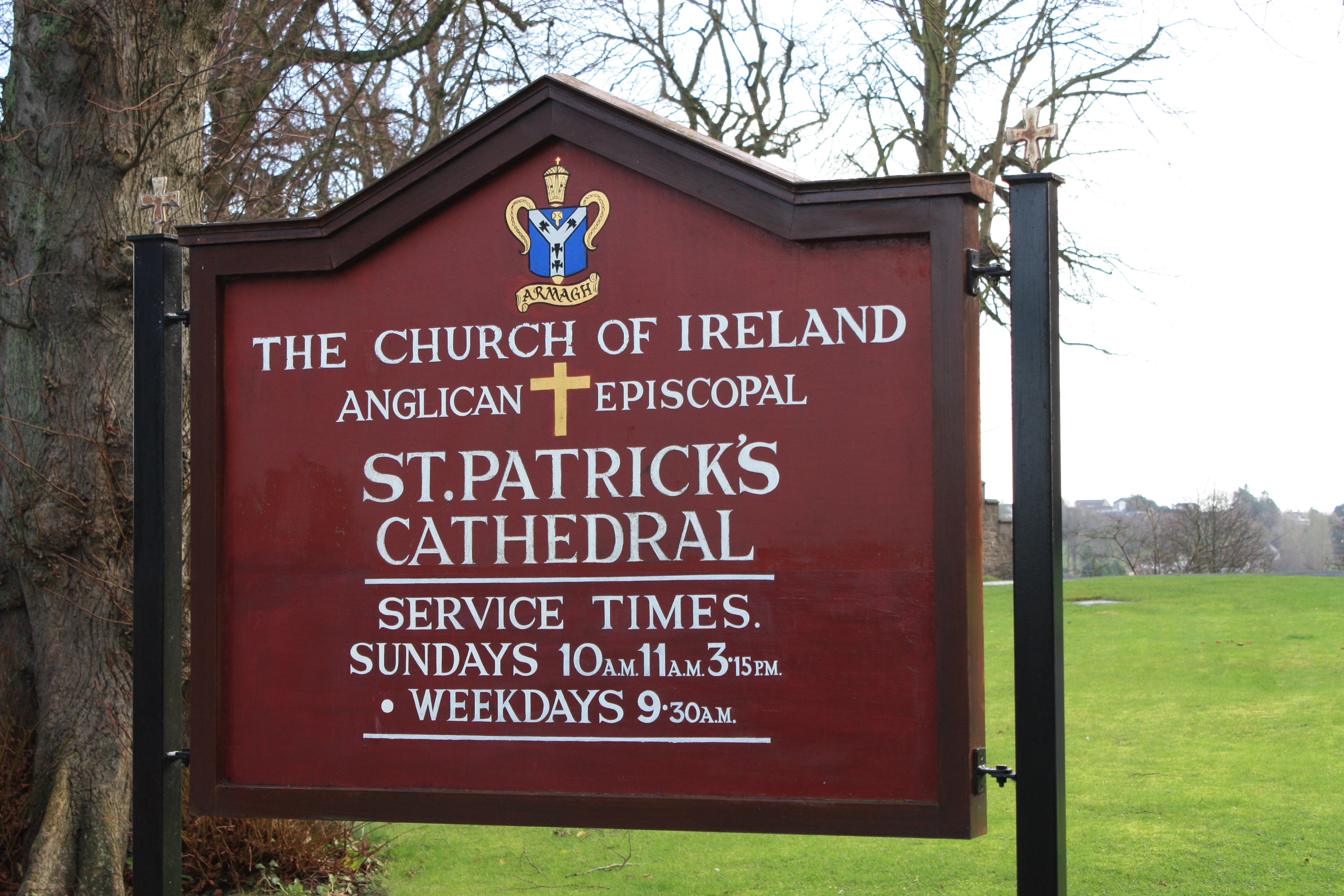 St Patricks (COI) Cathedral, Armagh, County Armagh, Northern Ireland, November 2009